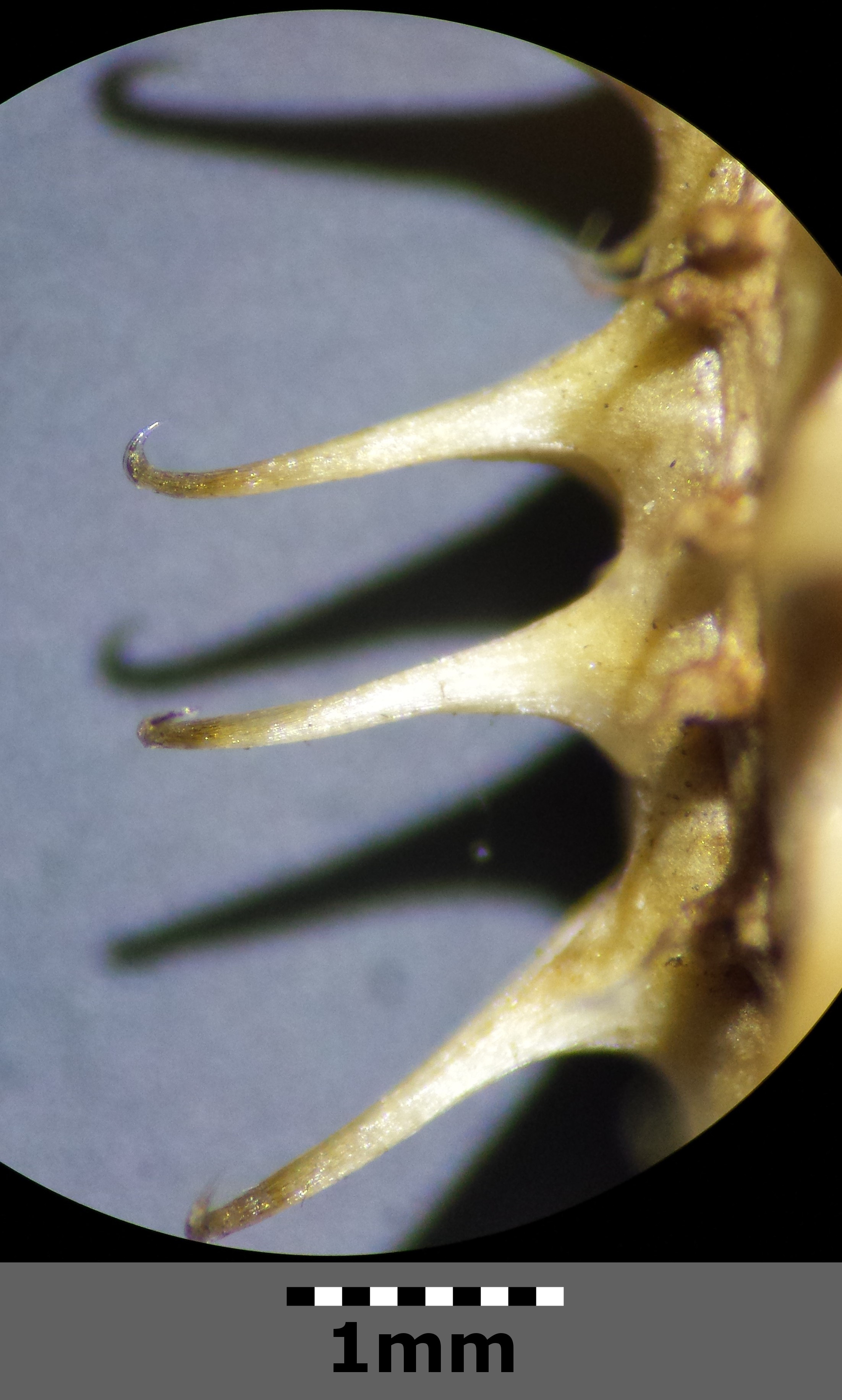 Fruit, prickles with hooks Taxonym: Caucalis platycarpos subsp. platycarpos (ss Fischer et al. EfÖLS 2008 ISBN 978-3-85474-187-9) Location: Steinbacher Heide, Leiser Berge, district Korneuburg, Lower Austria - ca. 450 m a.s.l. Habitat: stony field